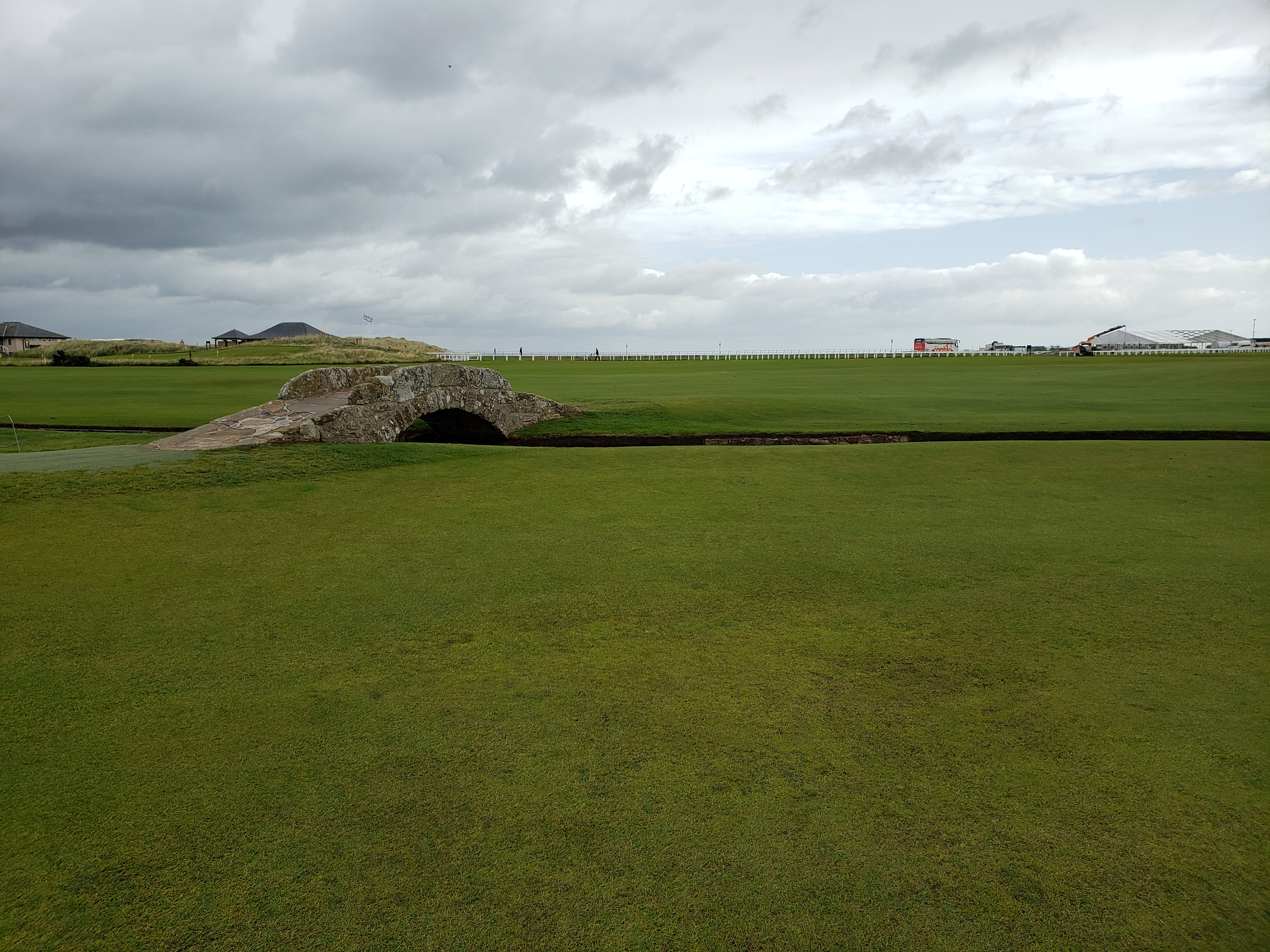 The famous Swilcan Bridge on the Old Course at St. Andrews, taken from the right-hand side of the 18th fairway.